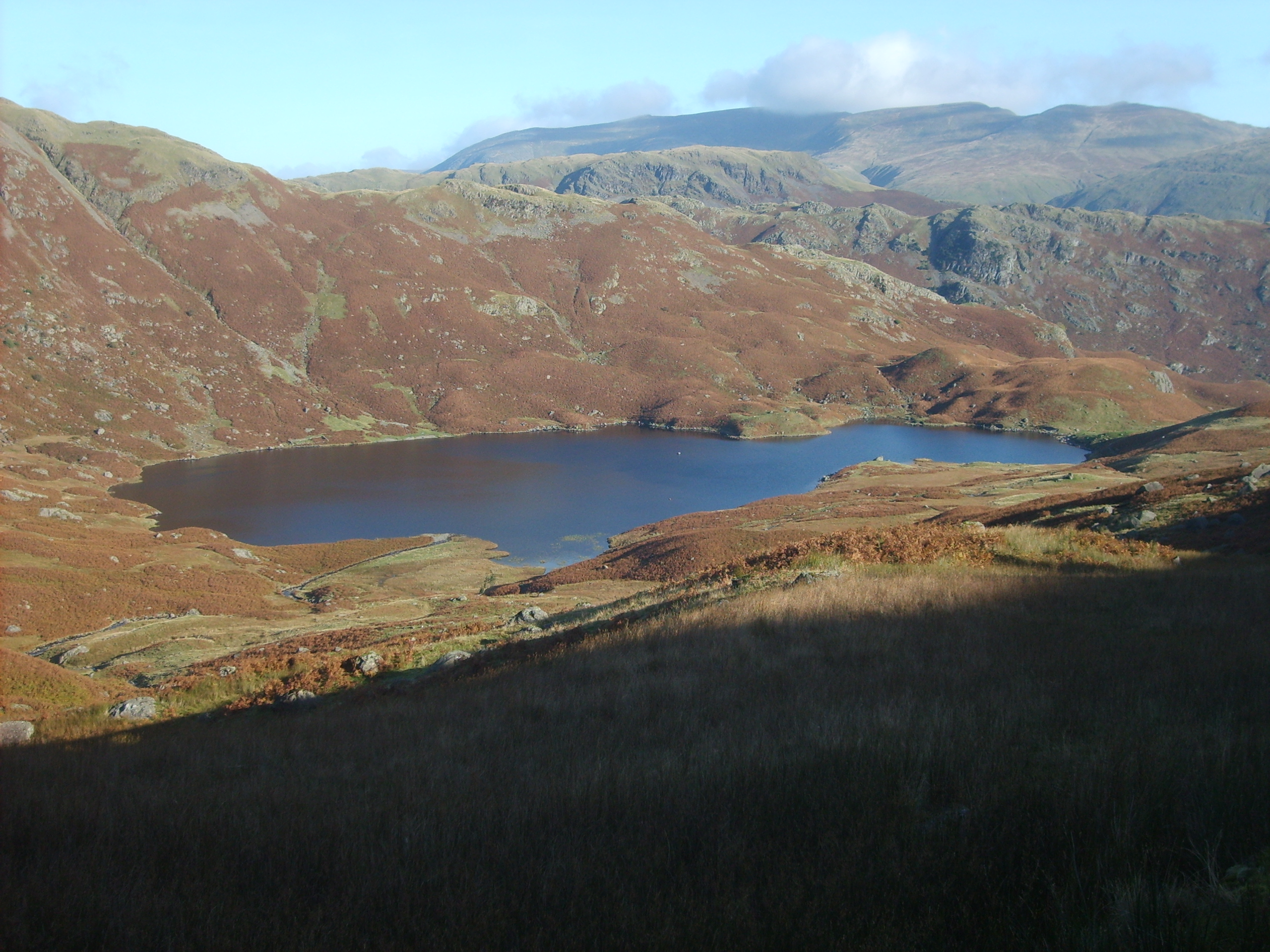 A picture of Easedale Tarn.